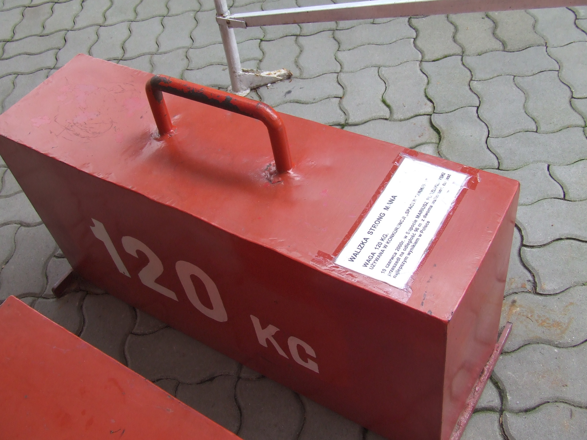 Museum of Records and Curiosity